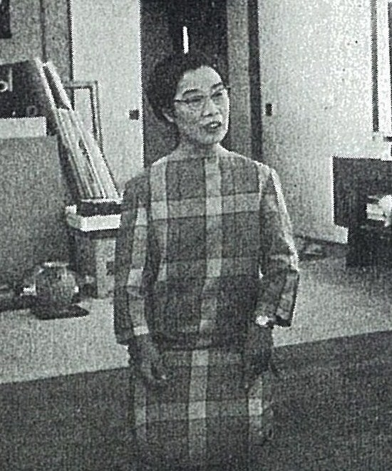 Tamako Kataoka (1905-2008), Japanese female painter